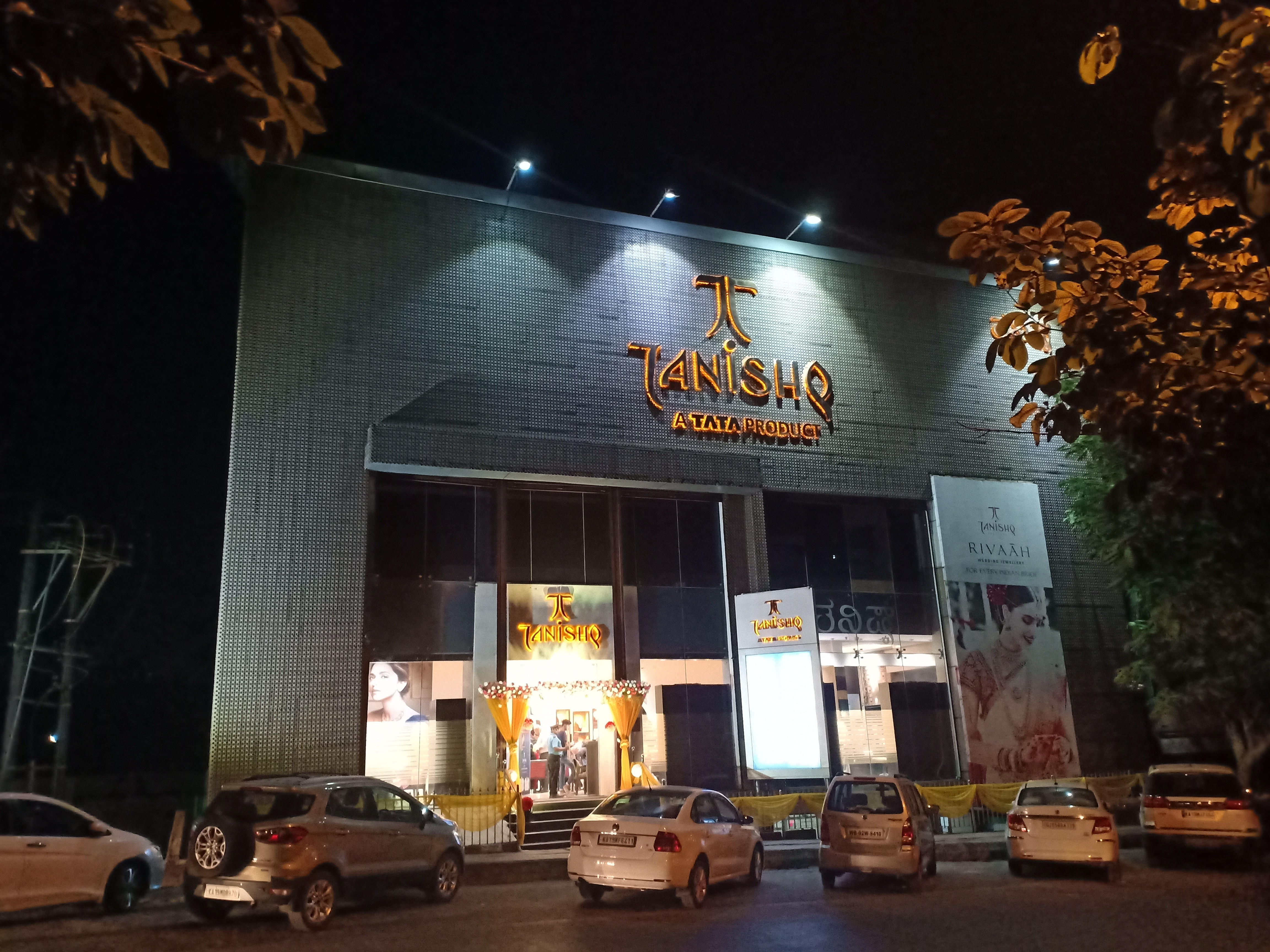 Tanishq Showroom at Balmatta road in Mangalore